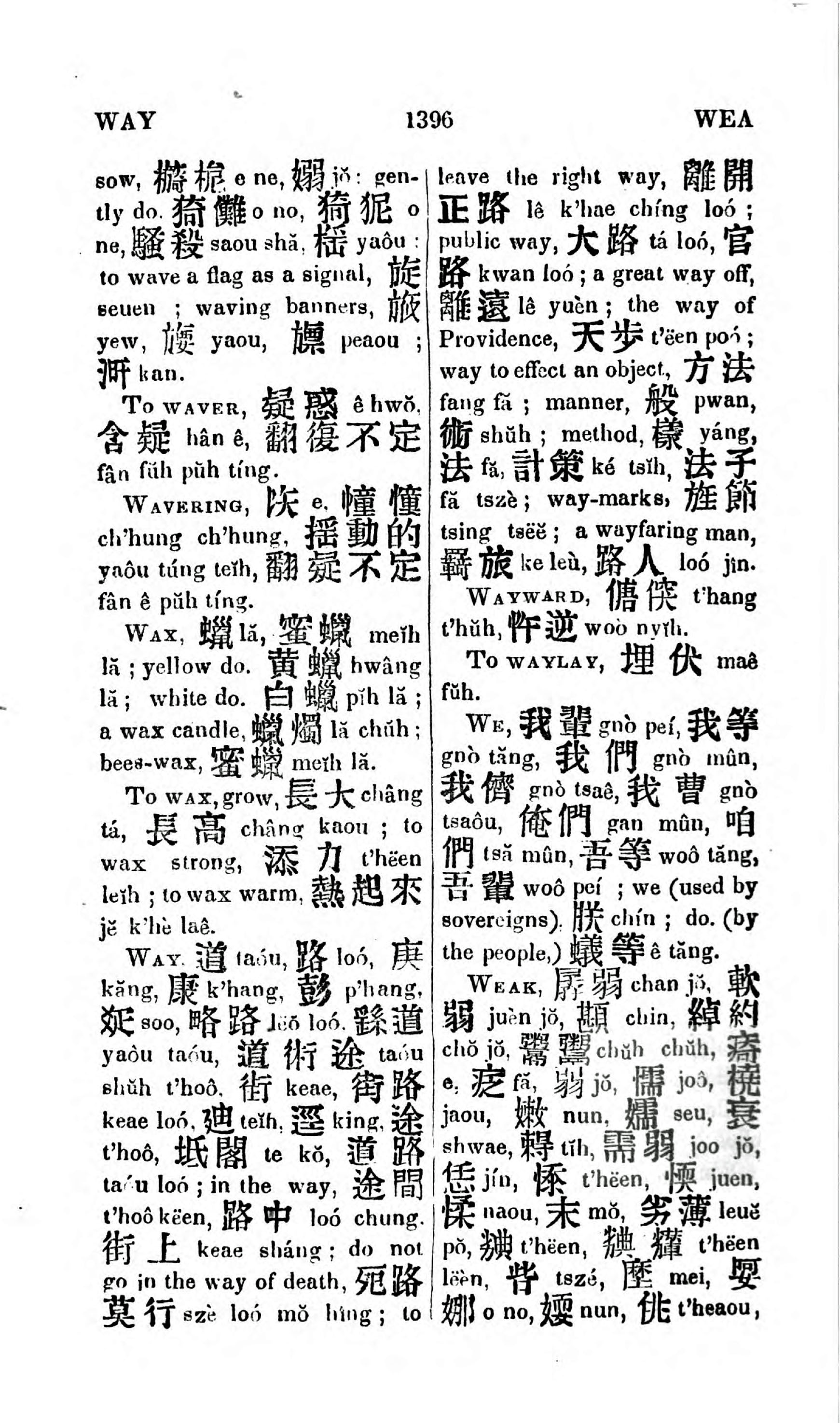 Walter Henry Medhurst's (1848) English and Chinese Dictionary page 1396